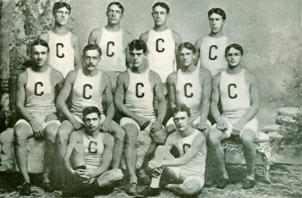 1898 Cornell Rowing Team: Back Row (l to r) : R. W. Beardsley, E. R. Sweetland, T. L. Bailey, A. B. Raymond. Middle Row(l to r): S. W. Wakeman, E. J. Savage, C. S Moore, Wilton Bentley, W. C. Dalzell. Front Row : F. A. Briggs, F. D. Colson.